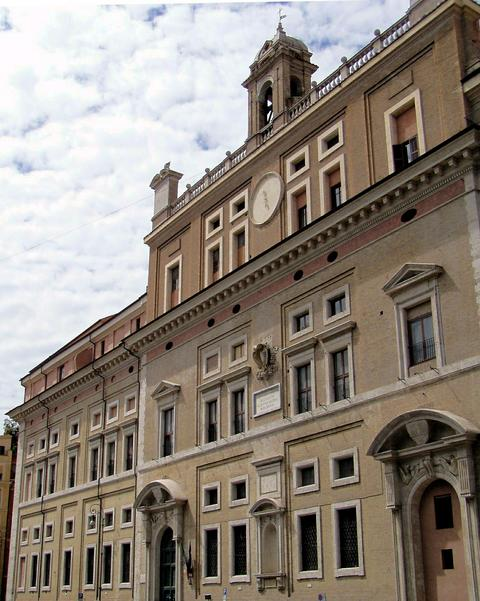 Wilson Delgado photograph of the Collegio Romano, taken in 2003